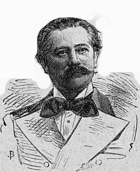 russian chess player Ilya Shumin